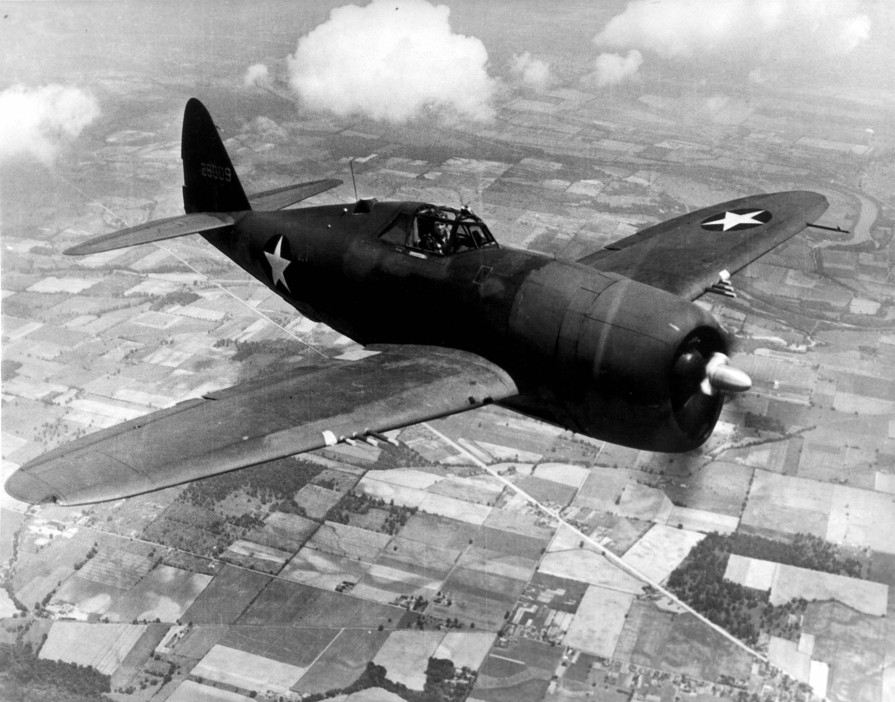 1940's -- Republic P-47D Thunderbolt, nicknamed "Jug." During WW II, the P-47 served in almost every active war theater and in the forces of several Allied nations. (U.S. Air Force photo)